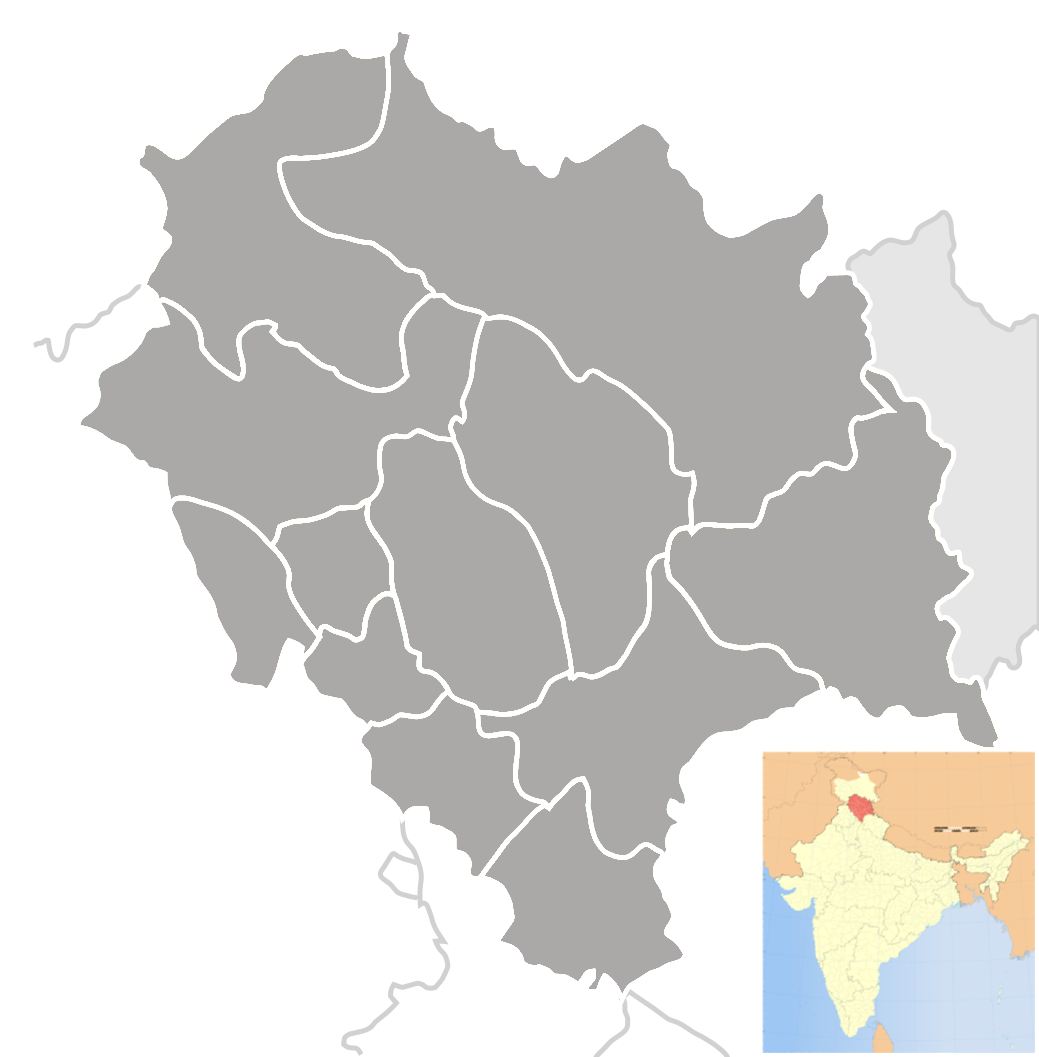 Blank district map of Himachal Pradesh